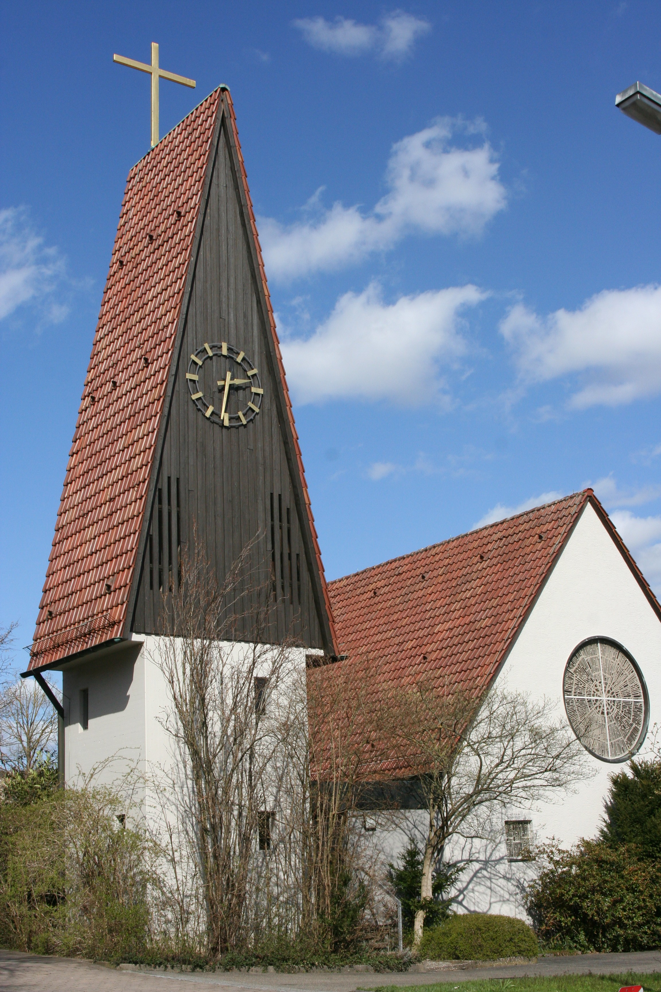 The protestant Peace Church in Weinsberg-Grantschen from the South